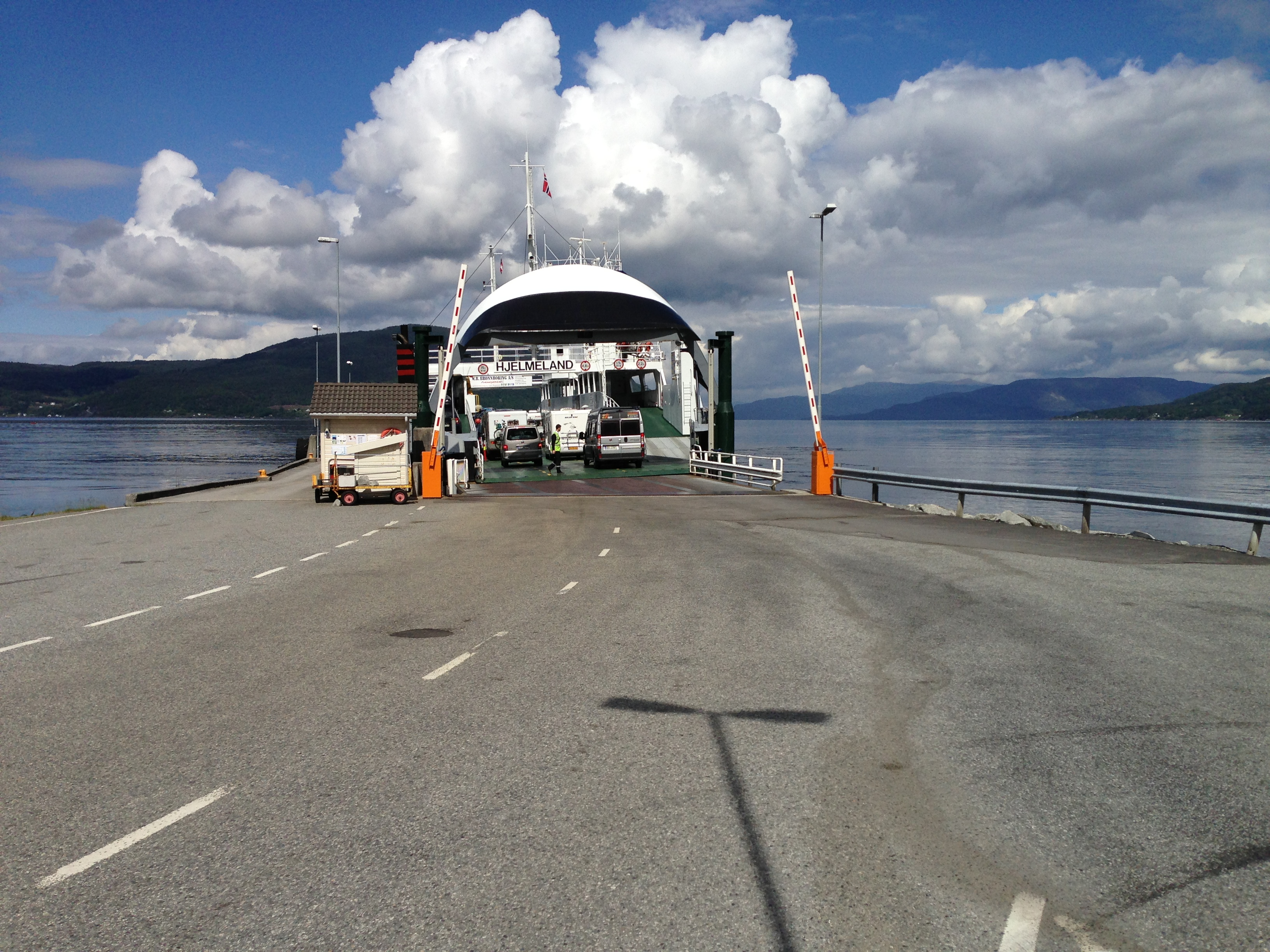 Mf Hjelmeland at Hjelmeland